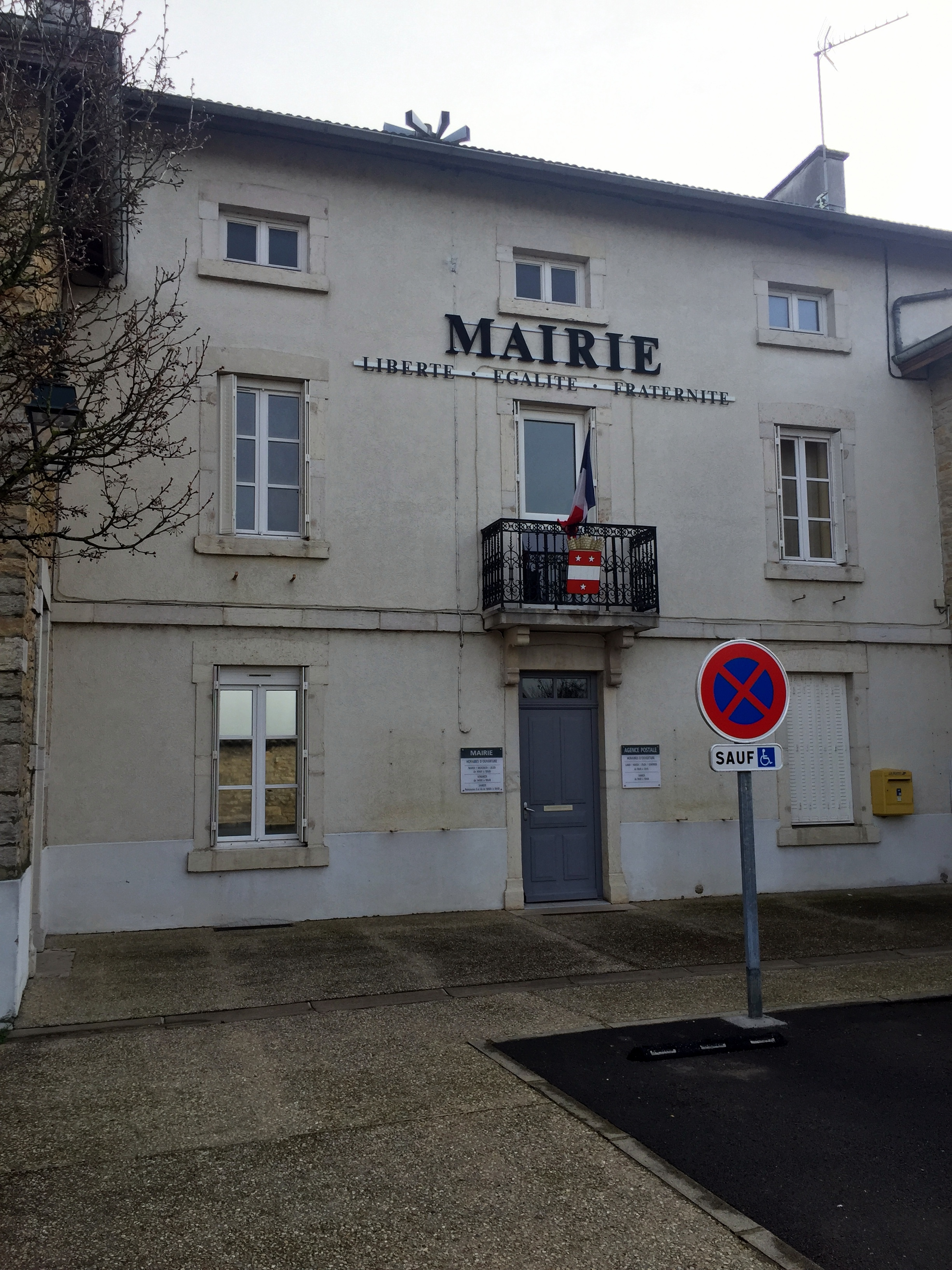 This photograph was taken with an iPhone 6